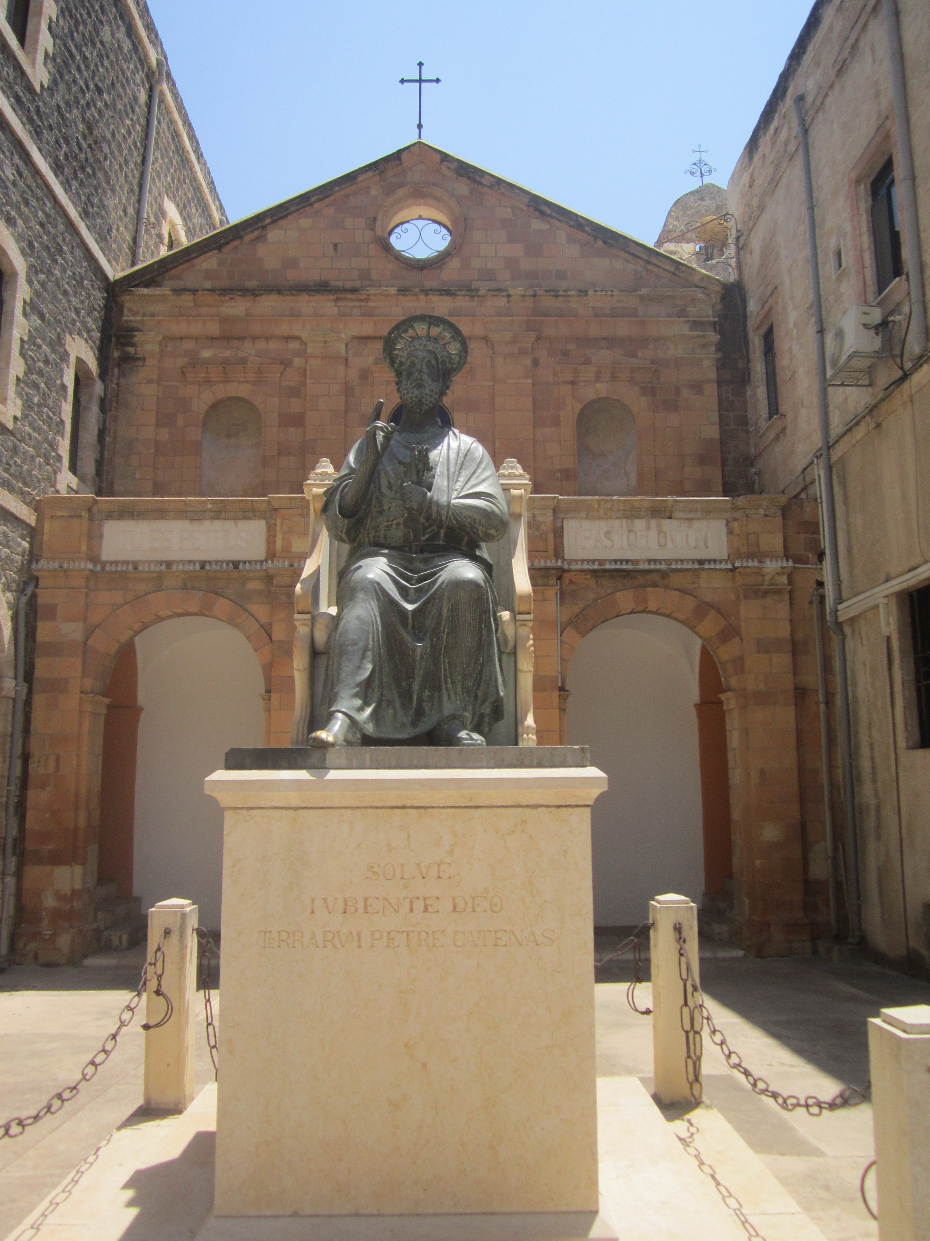 St. Peter's Church in tiberias